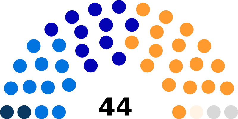 Seats diagramme of Swiss Council of States (1878)